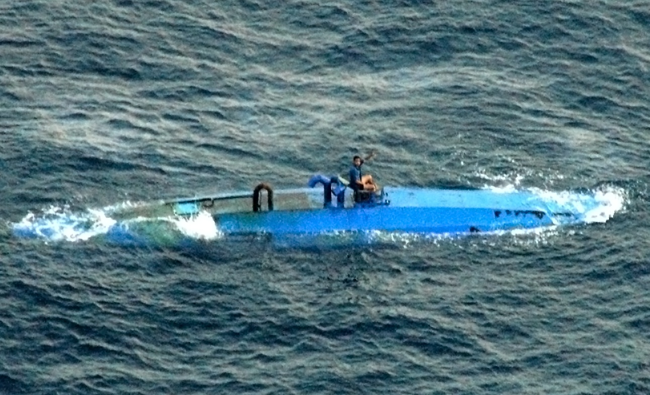 Fiberglass submersible built and used by colombian drug smuglers. Because much of its structure is made of fiberglass and it travels mainly below the water surface, it is virtually impossible to detect via sonar or radar. Narco submarines also have an upper lead shielding to minimize their heat signature to throw off infrared sensors. In most cases, this means visually spotting them from the air, although they are also painted blue or green and produce only little wake.